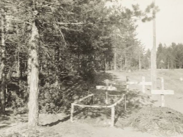 Grave of five German Baltic Sea Division soldiers by the Hauho-Lammi road in Finland. Presumably related to the battles of Hauho and Syrjäntaka in 28-29 April 1918.